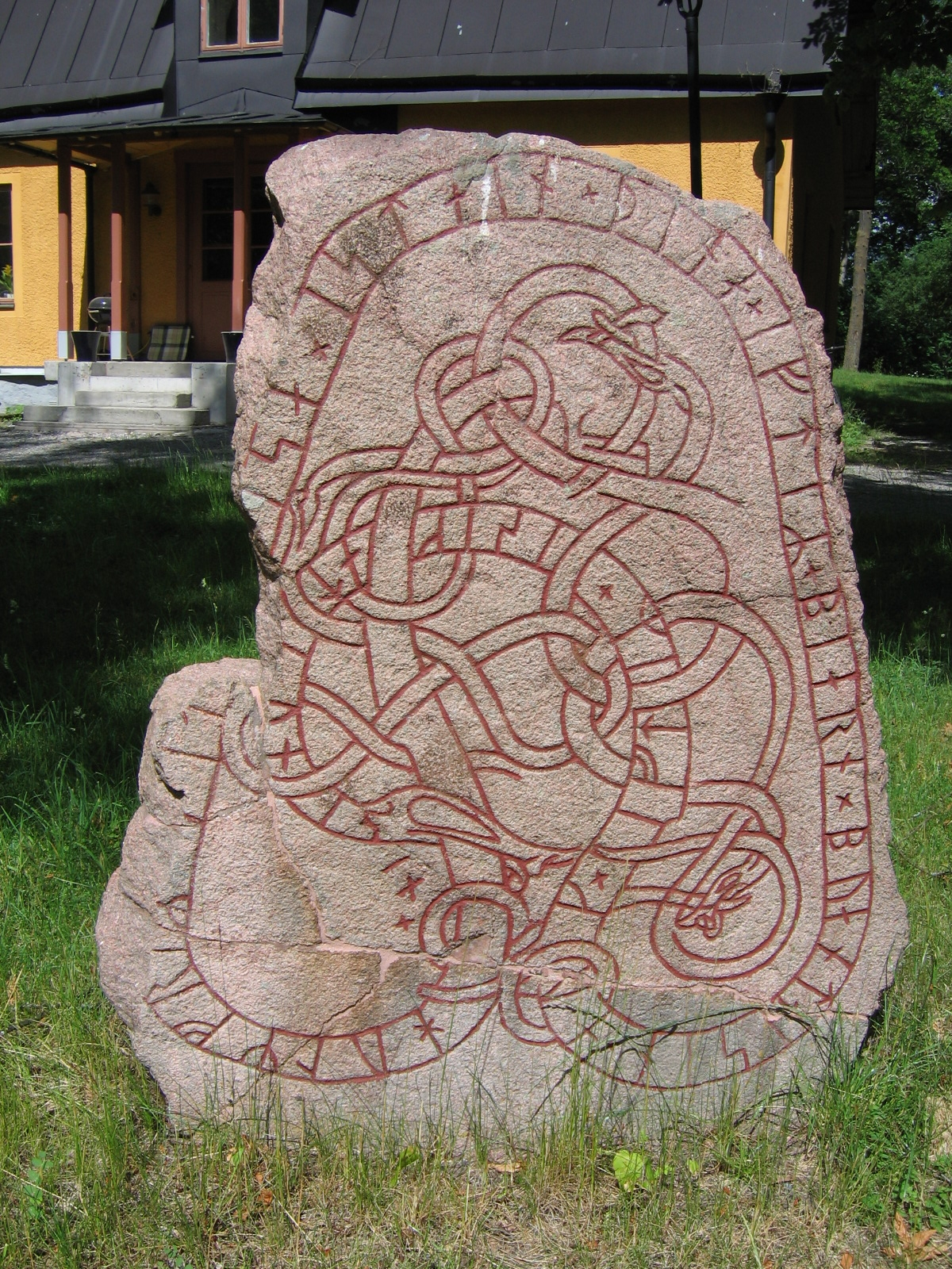 Runestone U 152 in Täby.